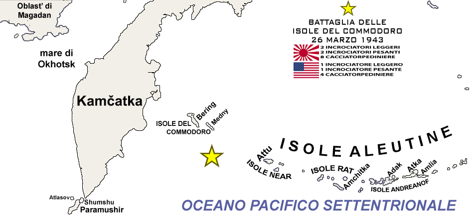 Map of the Battle of the Komandorski Islands